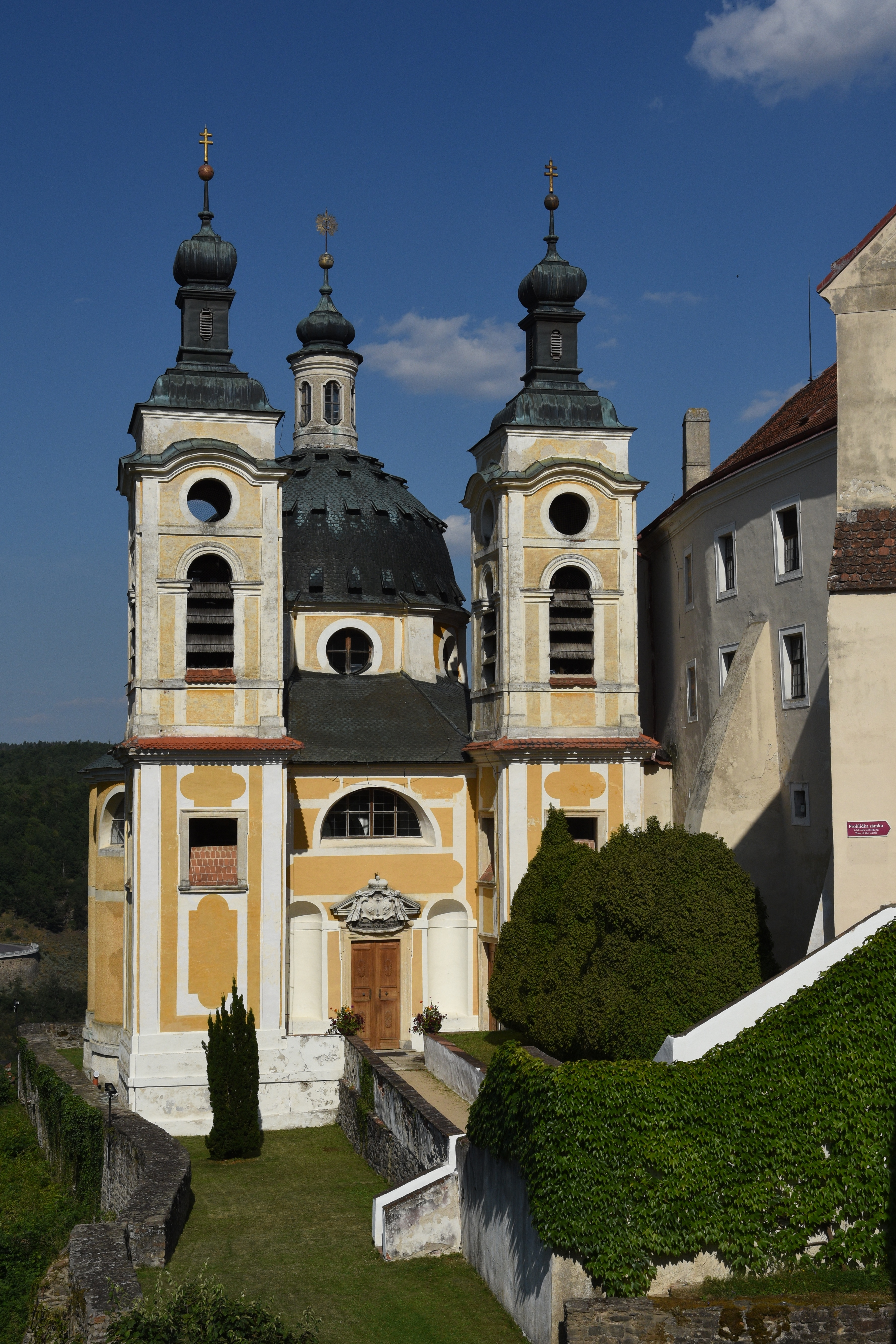 Chapel of Holy Trinity (Vranov nad Dyjí)